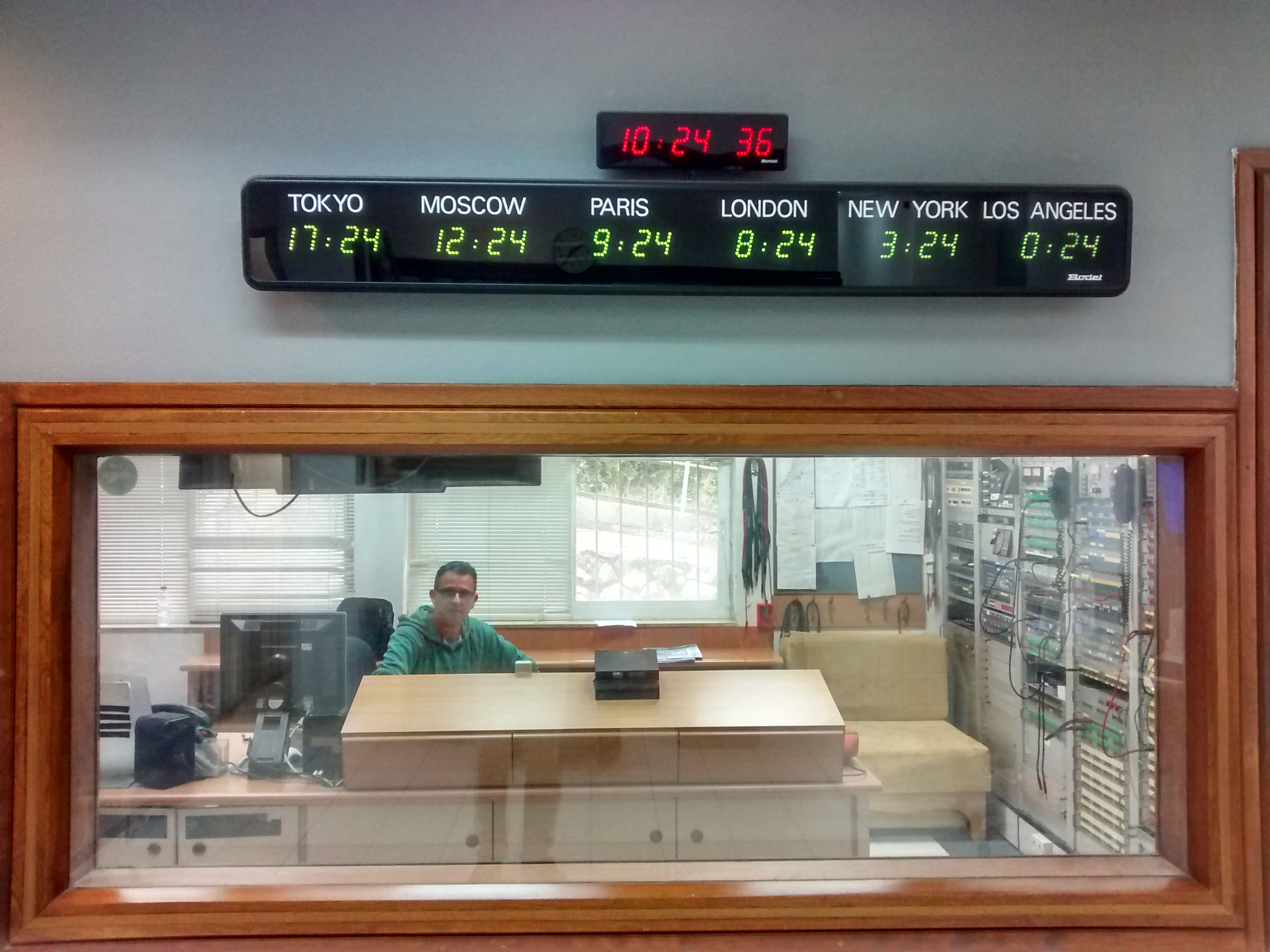 Studios and facilities of Kol Israel in Romema, Jerusalem 2016